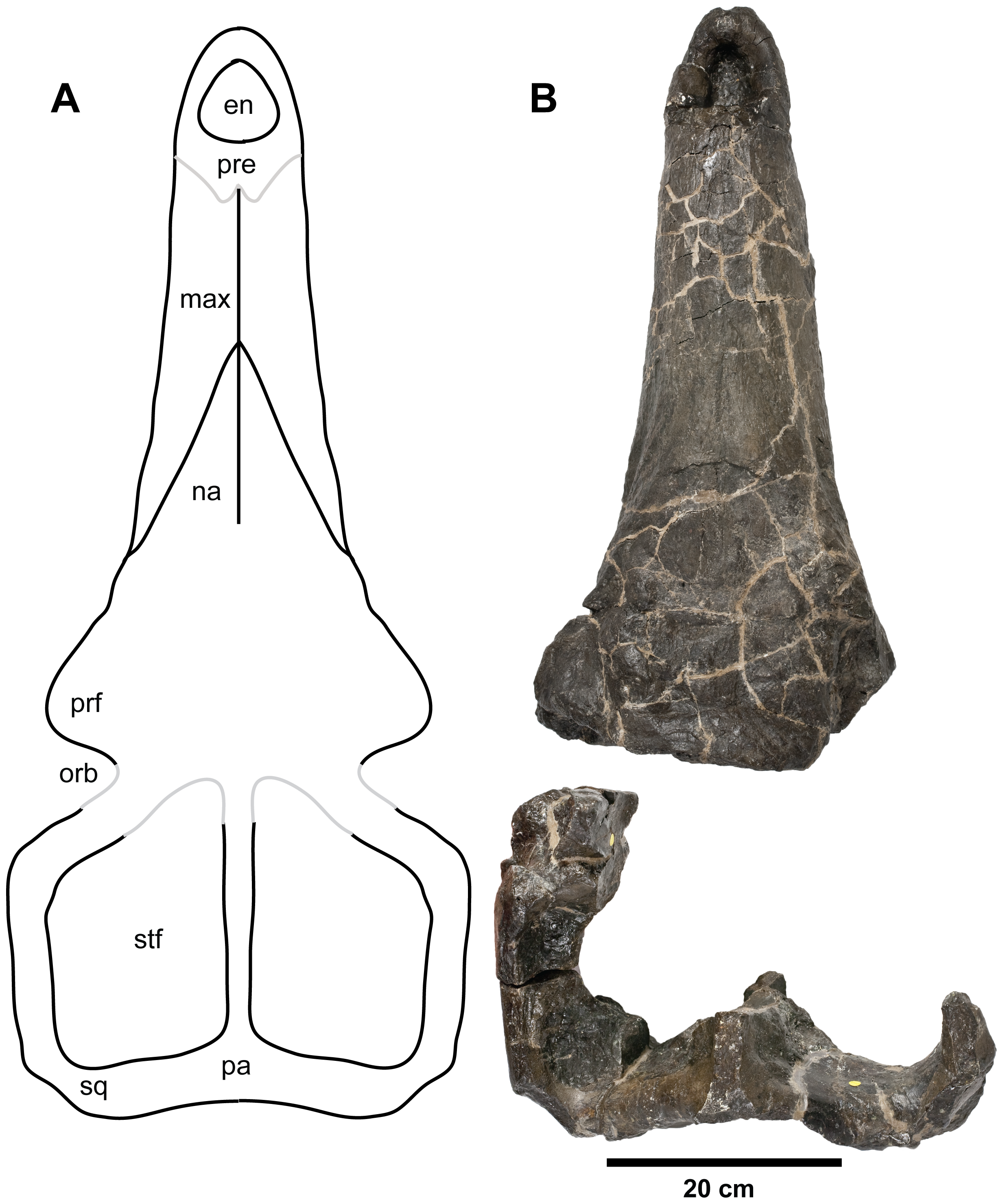 Plesiosuchus manselii, holotype NHMUK PV OR40103. Dorsal view of the skull, (A) hypothetical skull reconstruction (grey lines represent elements that are missing) and (B) photograph of what is preserved. Abbreviations: en, external nares; max, maxilla; na, nasal; orb, orbit; pa, parietal; pre, premaxilla; prf, prefrontal; sq, squamosal; stf, supratemporal fenestra.